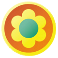 Her emblem ripped directly from Mario Kart 8